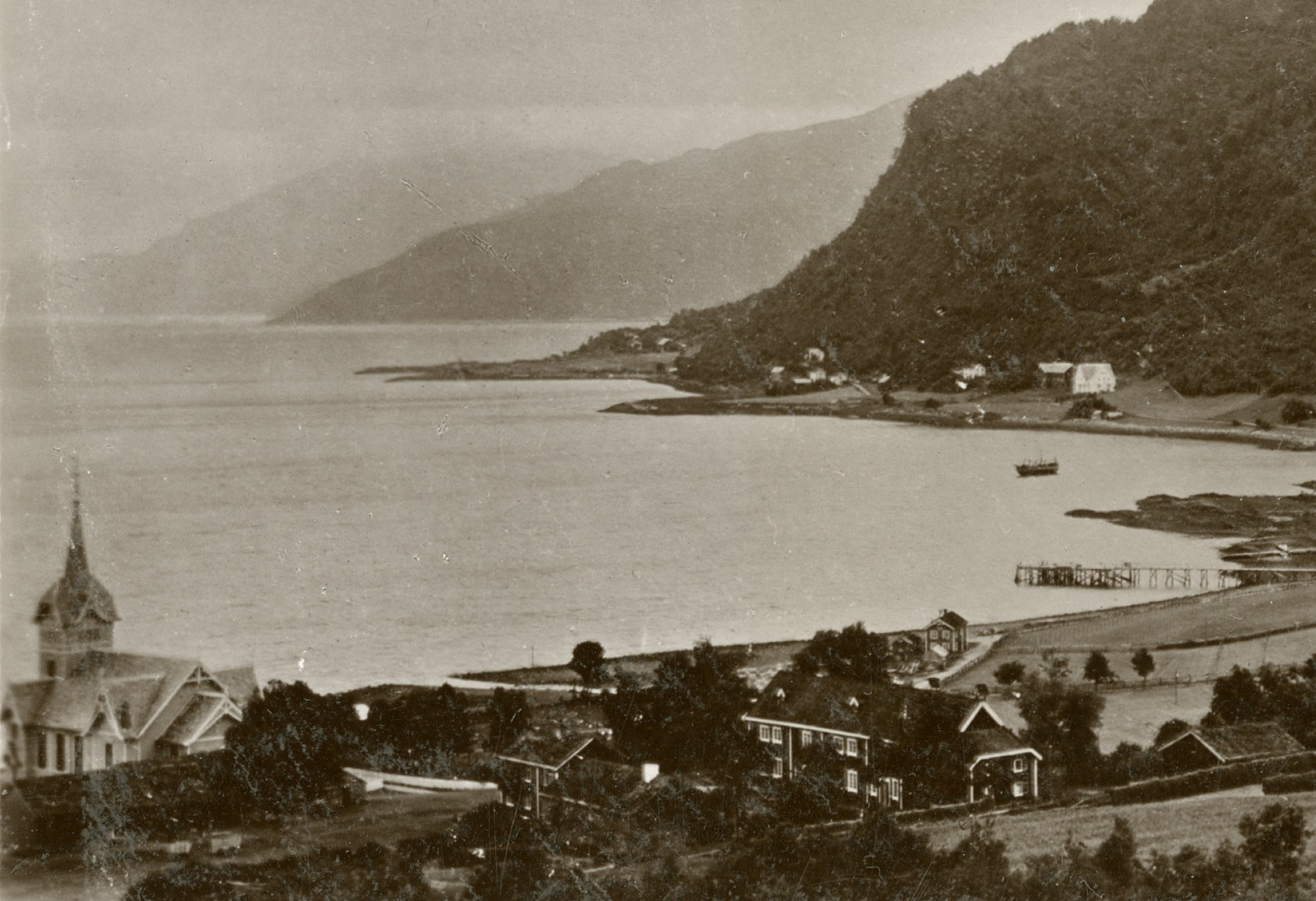 Stangvik med kirken og prestegården før brogstua ved prestegården ble revet. Fra kulturminnebilder.no.